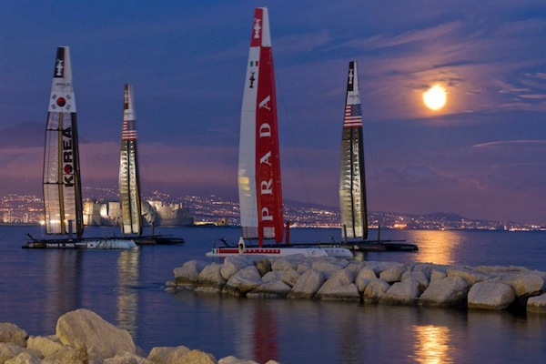 America's Cup in Naples - photo taken in 2012